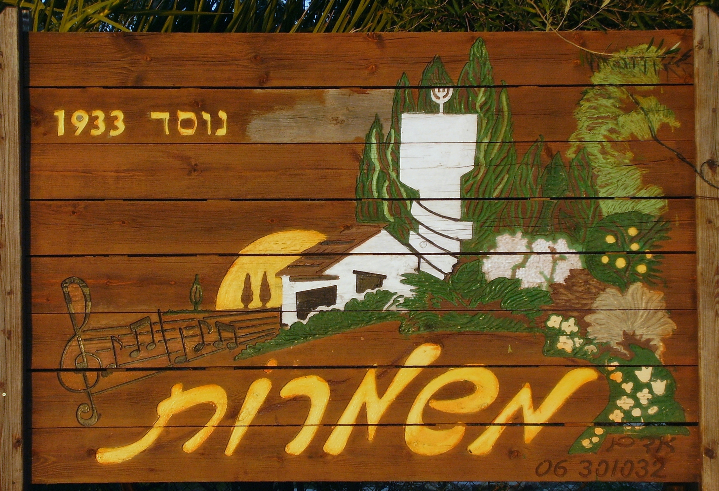 The sign at the entrance to kibbutz Mishmarot.